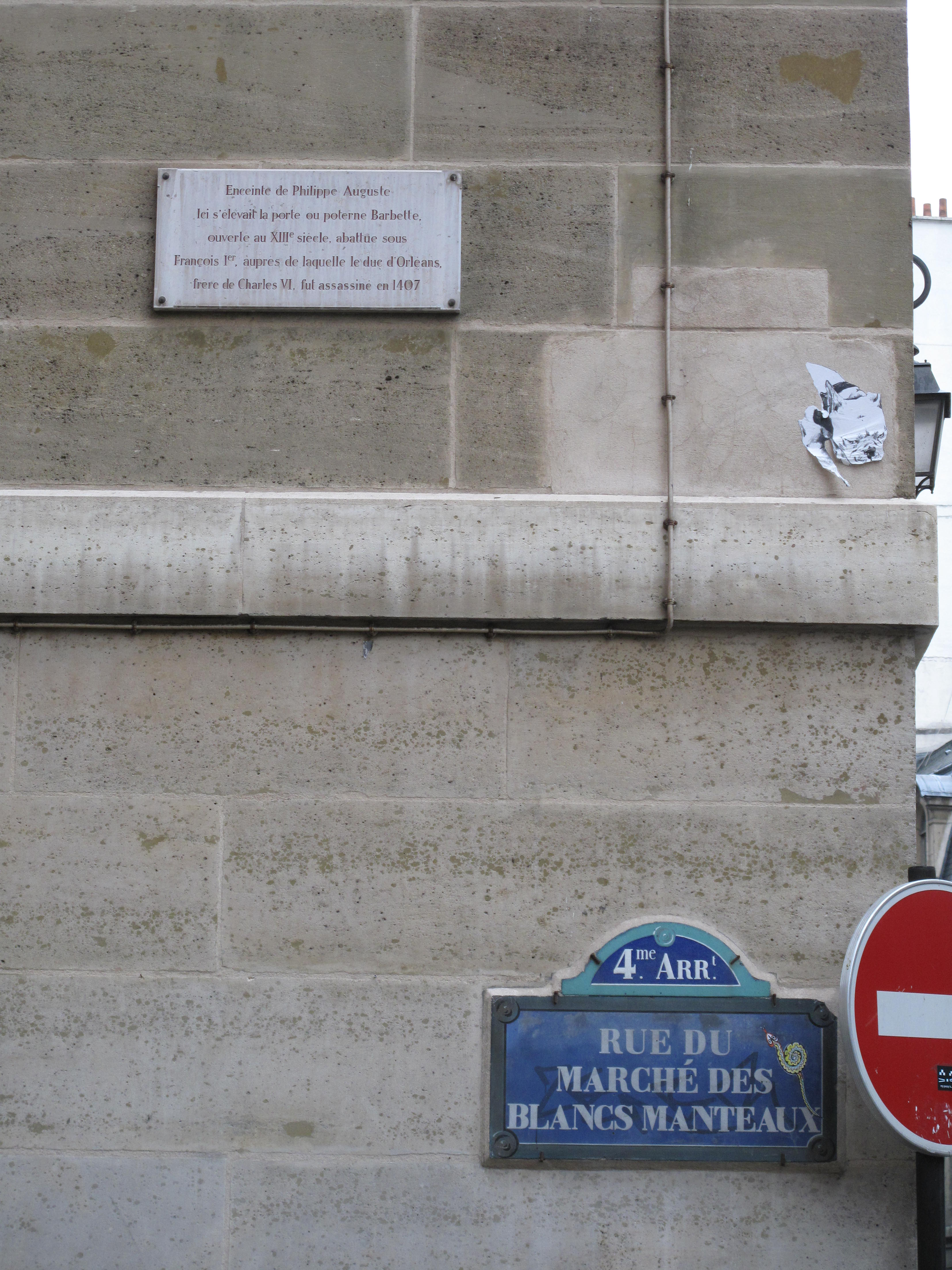 Plaque at the place of the "poterne Barbette" (in French, a poterne was à gate opened through the wall of a town) of the Philippe Auguste wall. At the corner of the rue des Blancs-Manteaux and rue Vieille-du-Temple, on the wall of the market hall of the Blancs-Manteaux, Paris 4th arr.